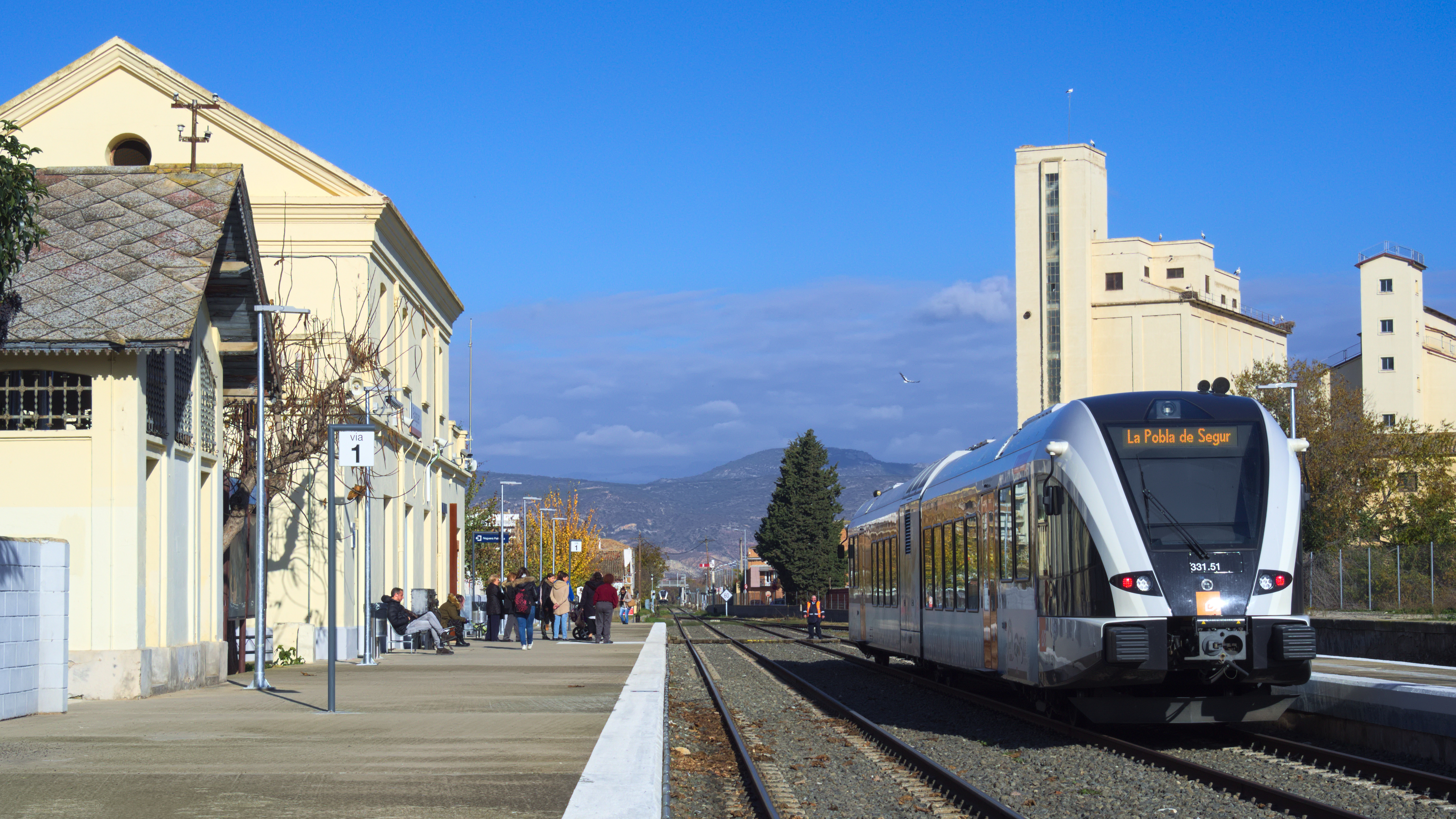 Class 331 train of FGC on the Lleida-La Pobla railway line in Balaguer